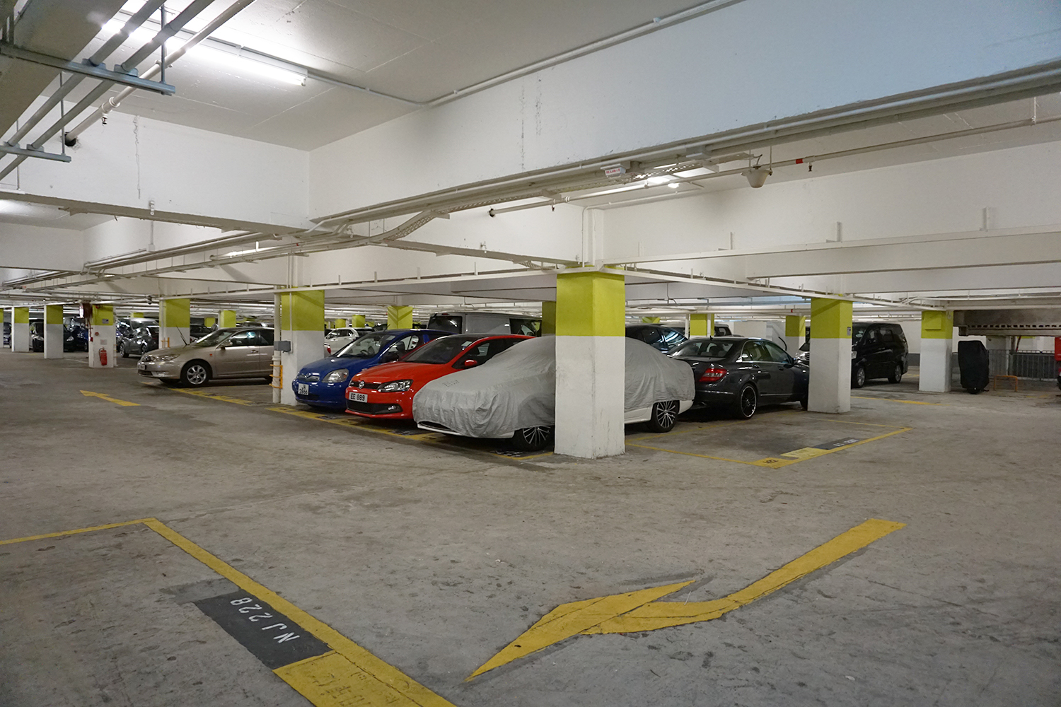 Sha Kok Estate in Sha Tin Wai, Hong Kong.